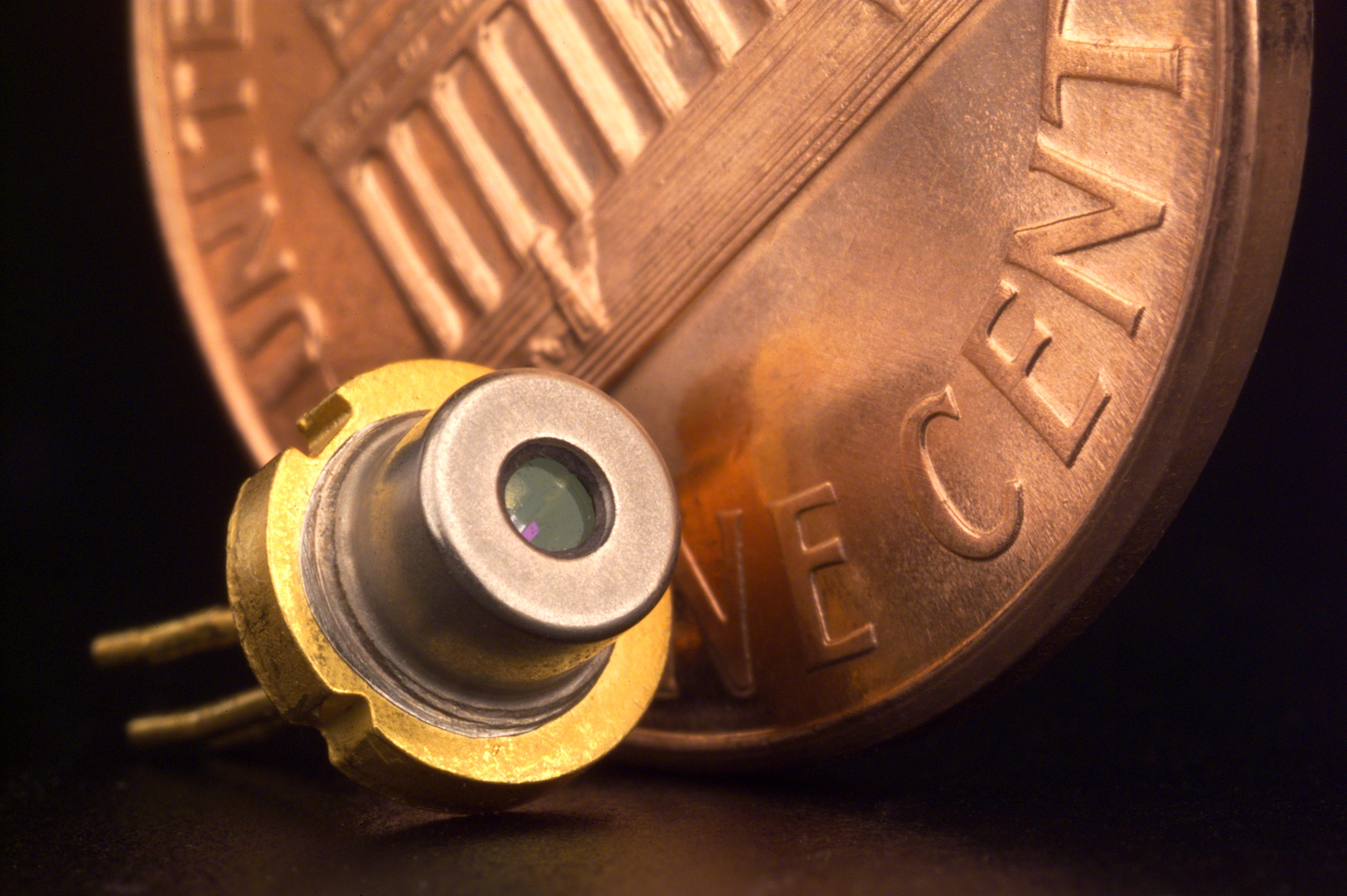 Original caption: "This technology is known as a Tunable Diode Laser (TDL) gas sensor. The heart of the TDL system is a small laser diode (about 2mm square) that produces a narrow and specific wavelength of light tuned to a harmonic frequency of the water vapor molecule in the near infrared band. The light causes the molecule to vibrate and absorb the energy. Once adjusted to the specific frequency of the molecule, the laser is minutely tuned to different wavelengths on either side of the target wavelength. By comparing the light energy being absorbed at the water vapor frequency, to the light energy at the surrounding frequencies, a very precise measurement can be made. Multiple measurements are made every second, making the system quick to respond to variations in the target gas. TDL gas sensing technology is particularly good at detecting low levels of gases at the parts per million or even parts per billion level. With the vast majority of manufactured products relying more and more on gas measurement of some kind, commercial applications for this technique are broad. In every environment from wafer fabrication process control in the semiconductor industry to detecting trace levels of noxious gases in stack emissions, TDLs will be making news in the industrial and environmental monitoring sectors of the economy for years to come."